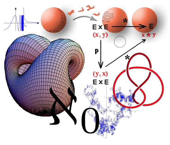 Ilustration of wide range of mathematical disciplines Author: Petr Glivický